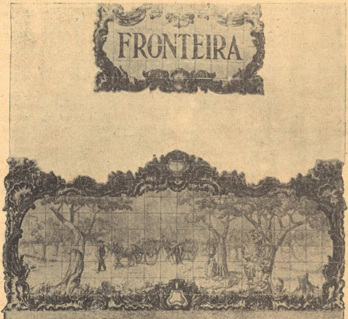 Tile panel at Fronteira Railway Station, in Portugal. This photograph was published in the Gazeta dos Caminhos de Ferro magazine No. 1081, of 1st January 1933, and scanned by the Hemeroteca Municipal de Lisboa.